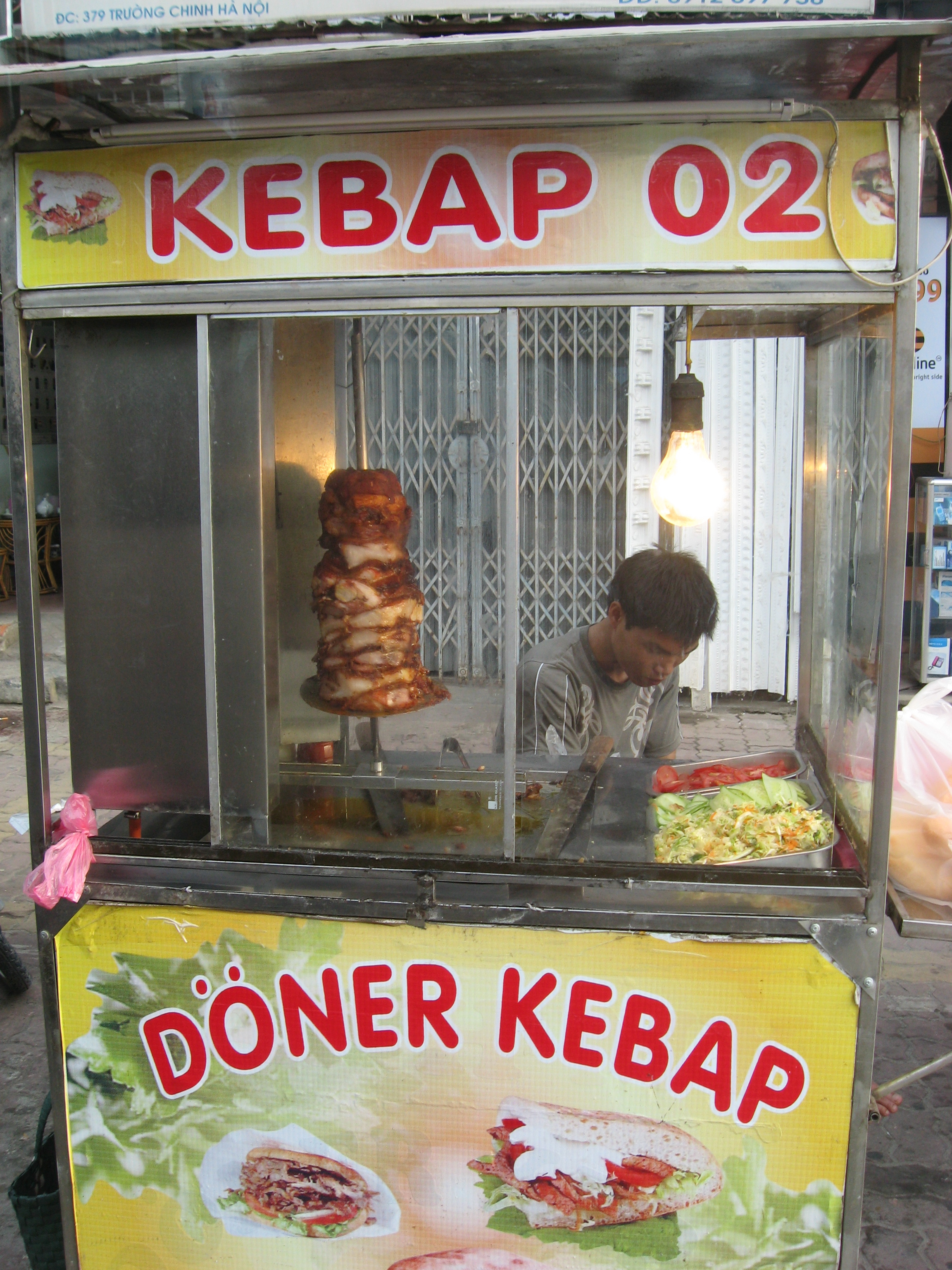 A Doner Kebap cart in Hanoi.